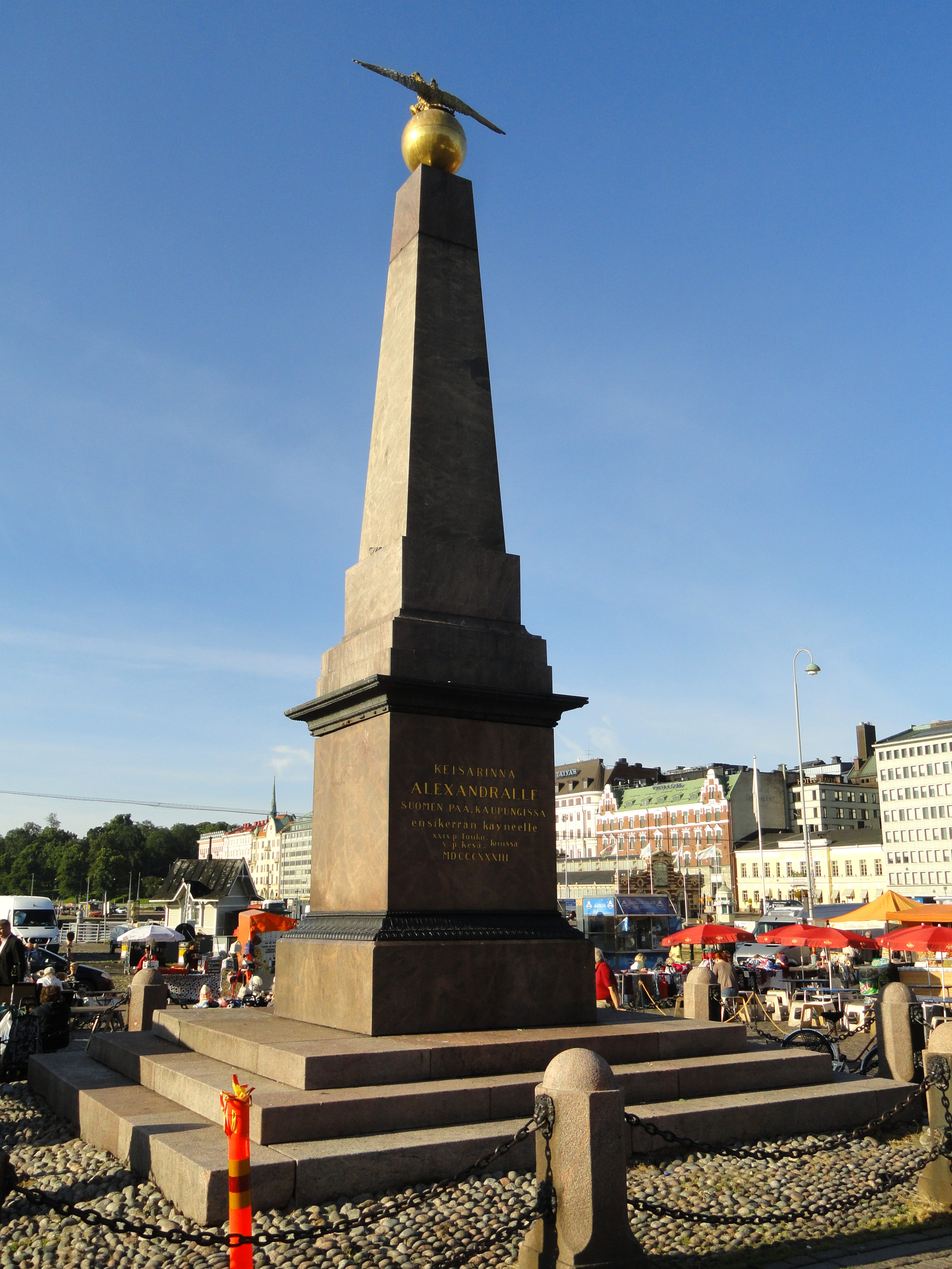 Stone of the Empress, Market Square, Helsinki, Finland. Sculptor: Carl Ludvig Engel. This artwork is in the public domain because the artist died more than 70 years ago.